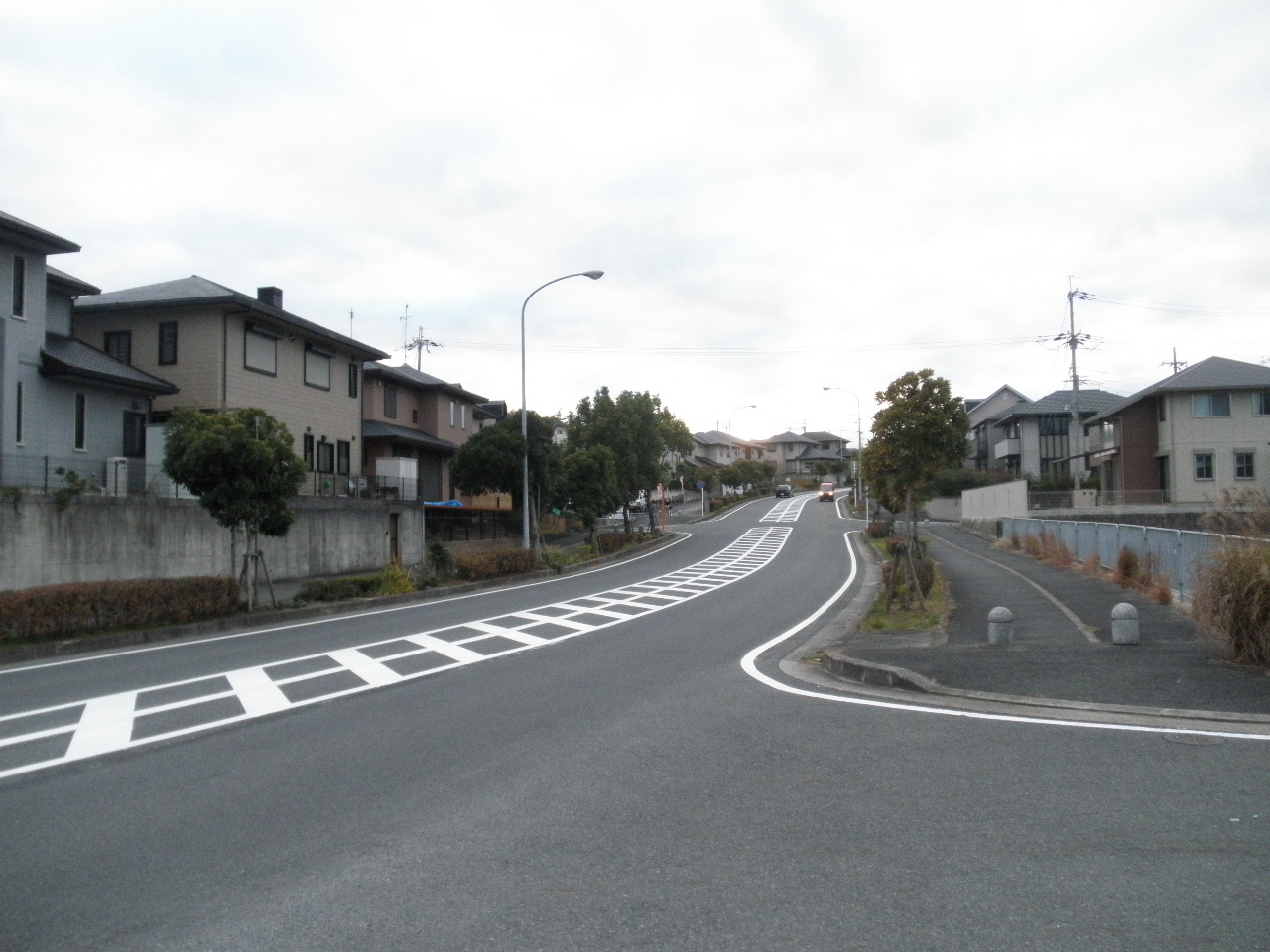 Saganakadai6 Kizugawacity Kyotopref Kyotoprefectural road 327 Saganakadai Saganaka Line